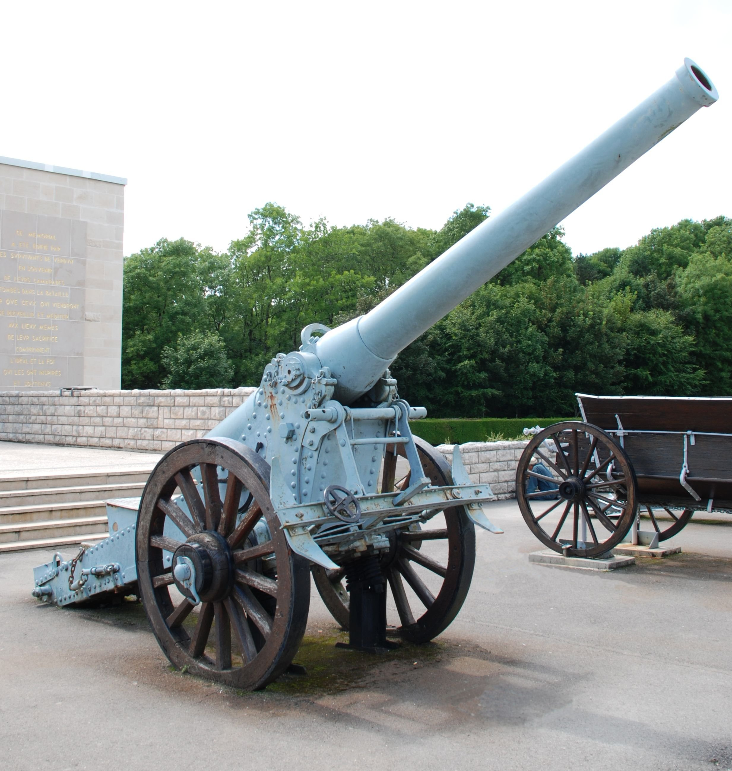 French cannon Bange 155 mm Ml 1877; the Verdun Memorial, Fleury-devant-Douaumont, France